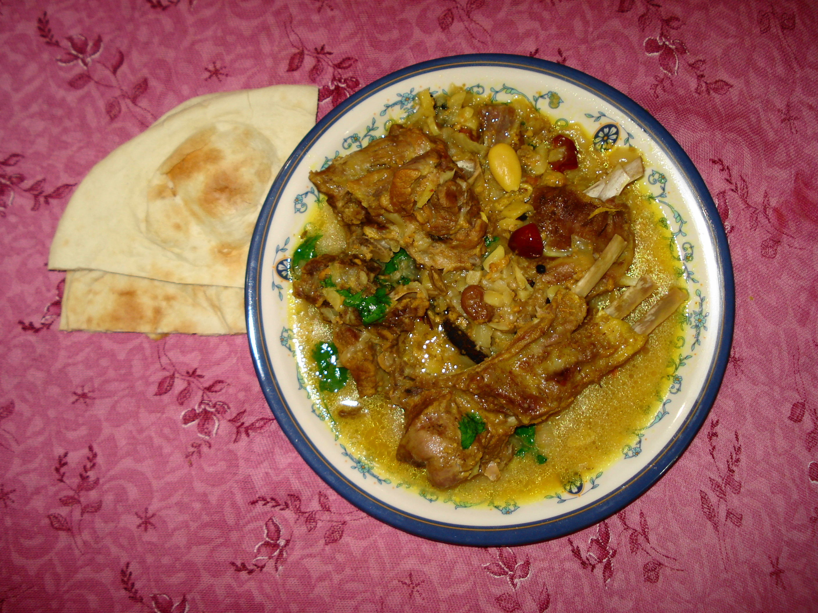 Dumpakhat